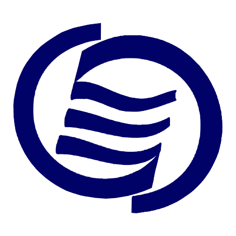 Seal of the Association of Caribbean States (A.C.S.)